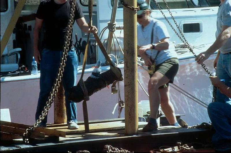 A cannon is recovered from the Penobscot Expedition Site in Brewer, Maine.